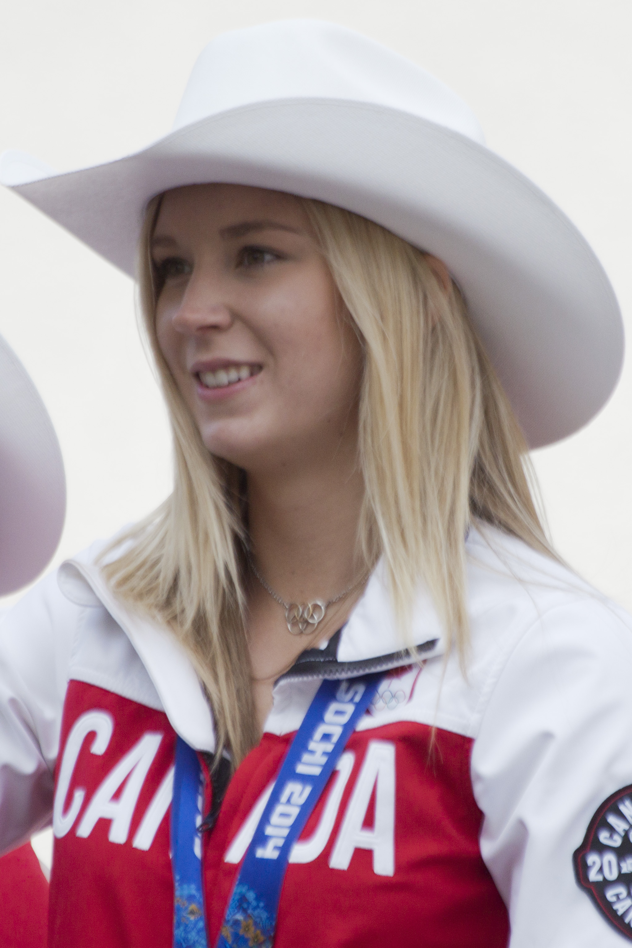 Dara Howell at the Parade of Champions in downtown Calgary on June 6, 2014. Image has been cropped.